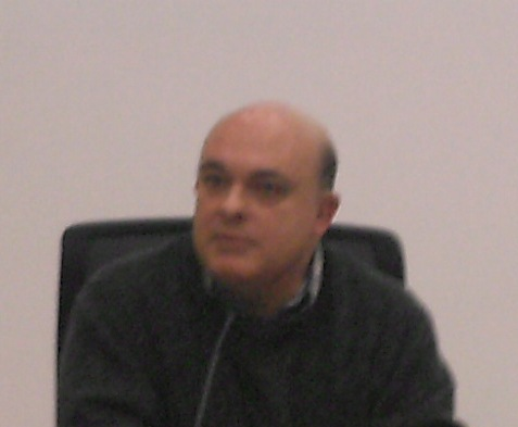 Emilio Olabarria.